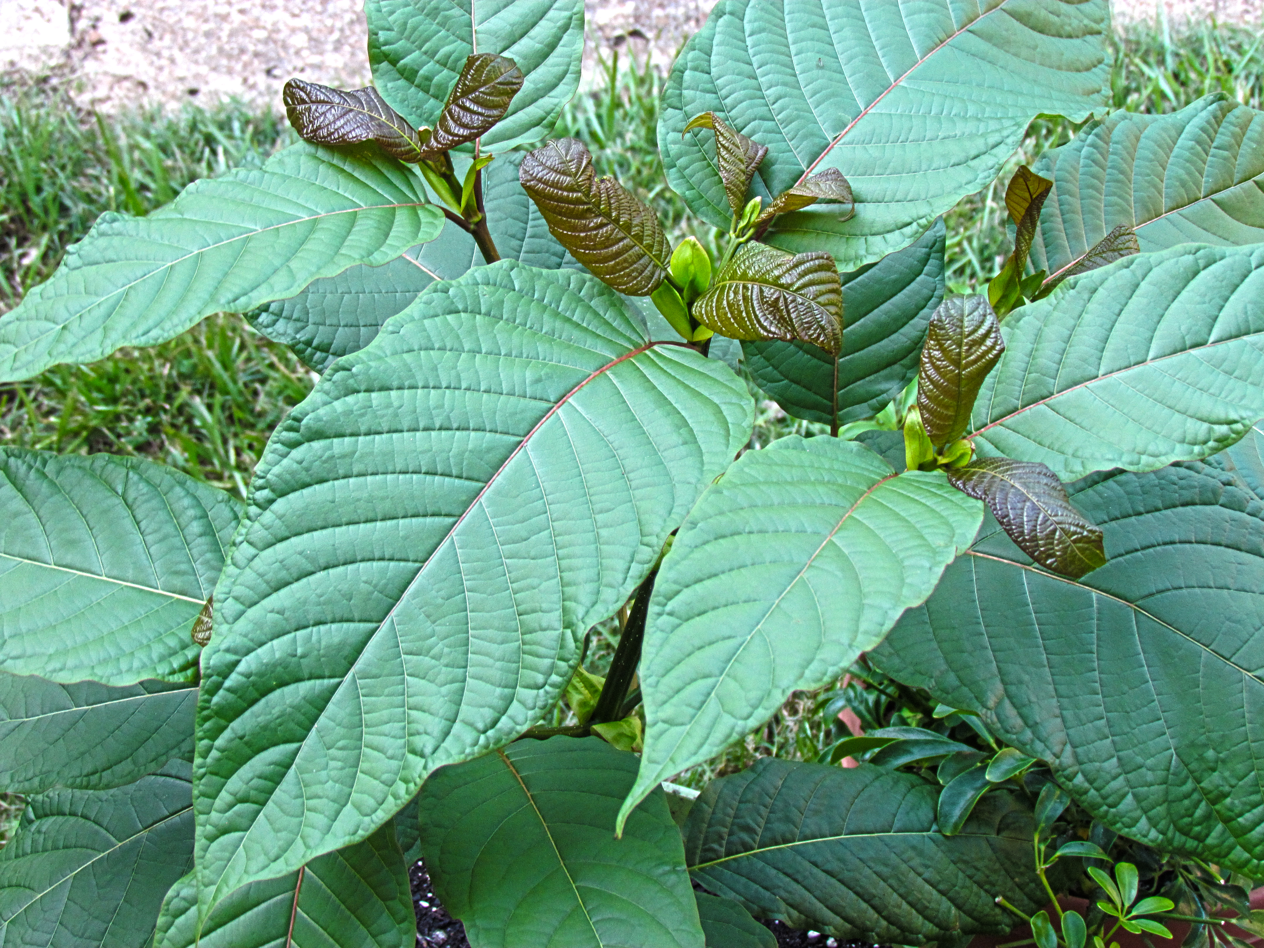 Mitragyna Speciosa tree